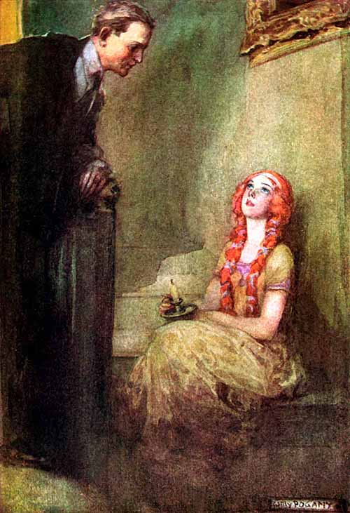 Frontispiece art by Willy Pogány to the book The Wishing-Ring Man by Margaret Widdemer, Published by Henry Holt and Company, 1917